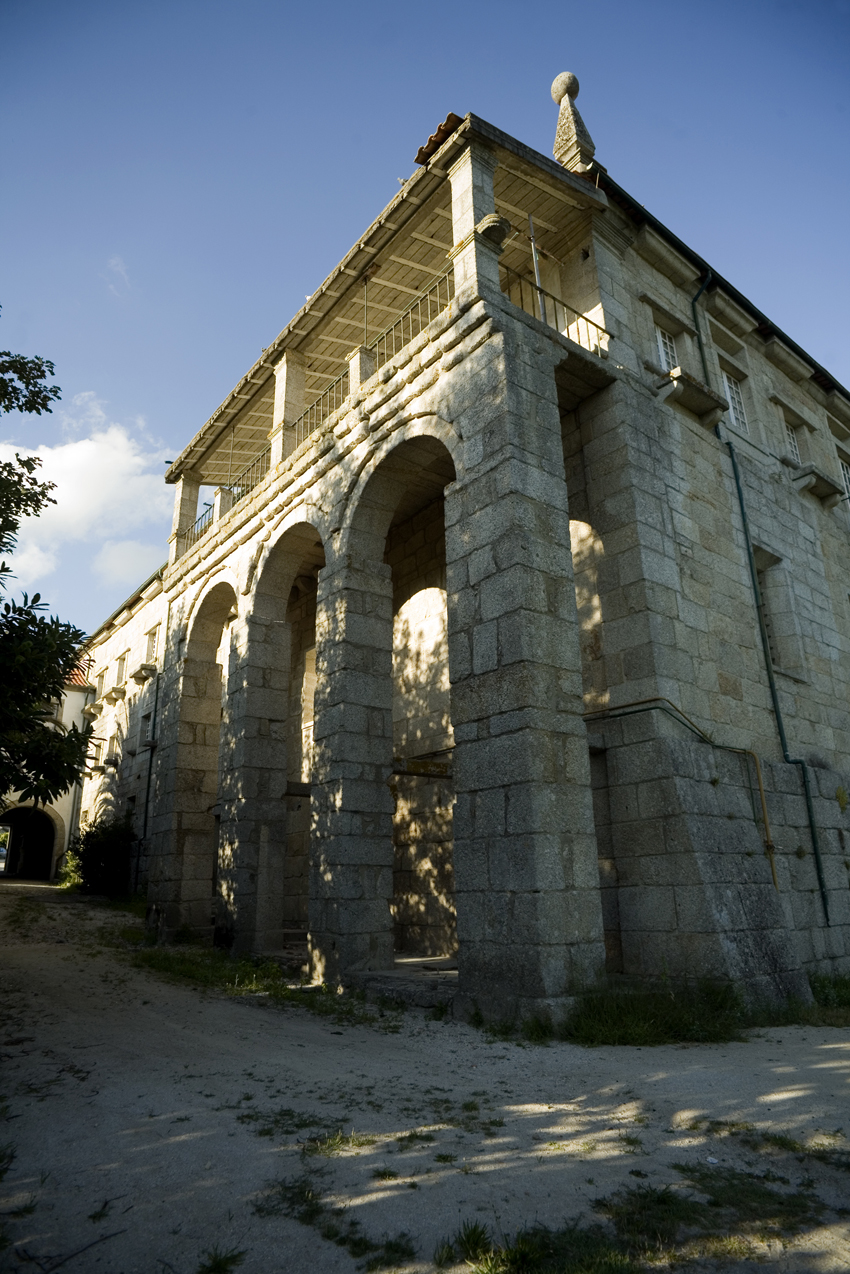 This file was uploaded for Wiki Loves Monuments in Portugal with the unique identifier 69880.